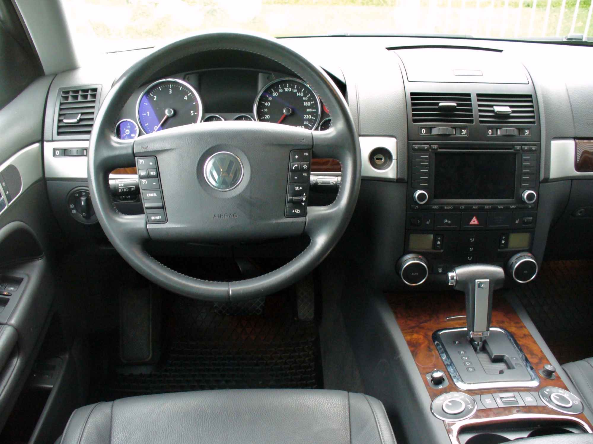 VW Touareg I